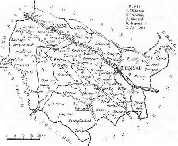 Map of Lăpușna interwar county, Kingdom of Romania (1938).